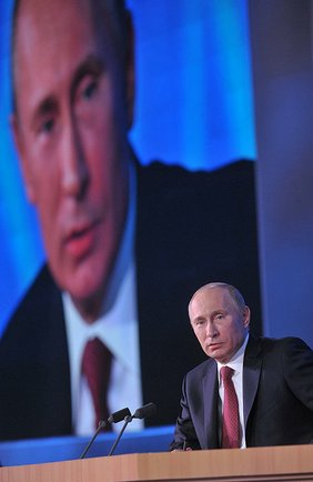 Vladimir Putin's news conference took place at the World Trade Centre on Krasnopresnenskaya Embankment. Moscow, 2012-12-20.